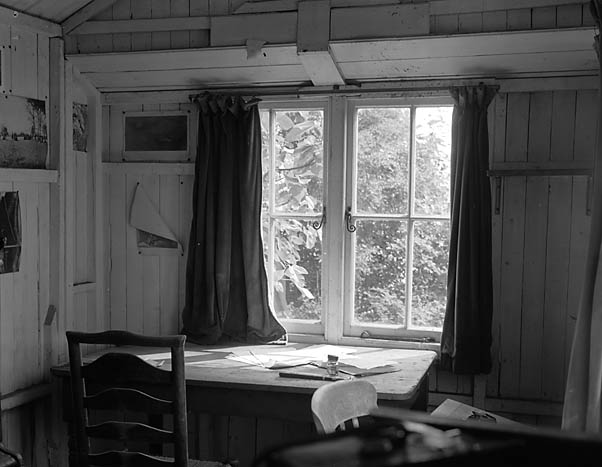 Teitl Cymraeg/Welsh title: Geoff Charles a'i gamera yn Lacharn, bro Dylan Thomas Ffotograffydd/Photographer: Geoff Charles (1909-2002) Dyddiad/Date: 28/7/1955 Cyfrwng/Medium: Negydd ffilm / Film negative Cyfeiriad/Reference: (gch12891) Rhif cofnod / Record no.: 003368879 Rhagor o wybodaeth am gasgliad Geoff Charles yn Llyfrgell Genedlaethol Cymru More information about the Geoff Charles Collection at the National Library of Wales Mae ffotograffau Geoff Charles hefyd yn rhan o Broject Europeana Libraries Geoff Charles' photographs also form part of the Europeana Libraries Project